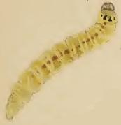 Stainton’s Natural History of the Tineina (1855–1873): Parornix scoticella